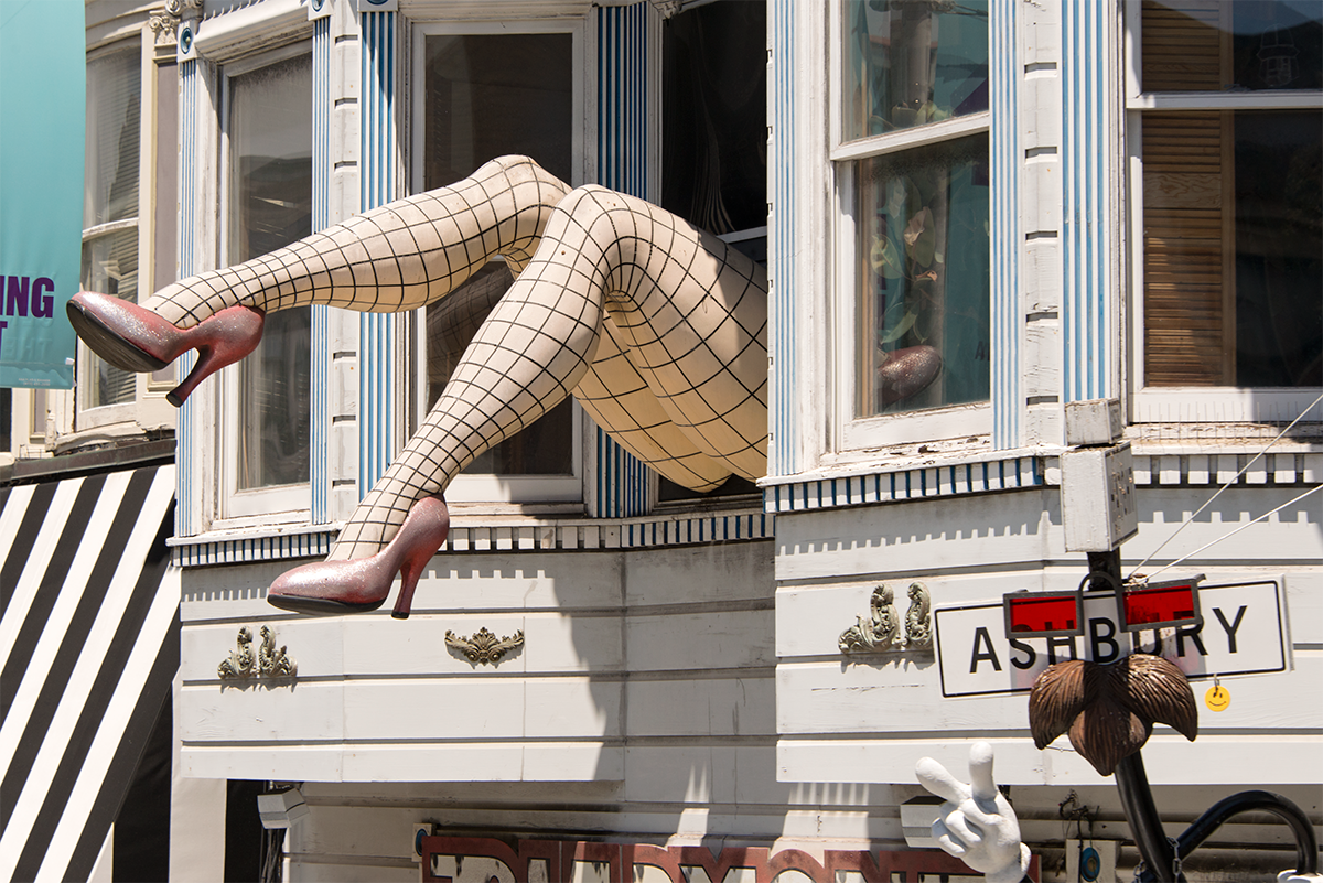 Haight-Ashbury facade.